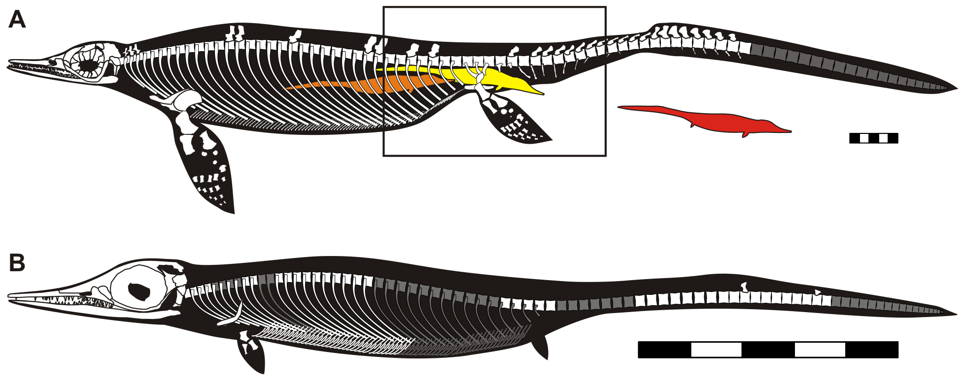 Stylized reconstruction of adult and embryo of Chaohusaurus. (A), adult based on AGM I-1 and CHS-5. Rectangle indicates the approximate range preserved in AGM I-1. Colored silhouettes of embryo are placed in approximate positions of embryos 1 and 2, with embryo 3 displaced to avoid overlap with embryo 2. The extent of the maternal tail tip, in gray, is based on AGM-CH-628-22. Scleral ring is based on AGM-CHS-3. (B), embryo based on embryo 2 and neonate 1 of AGM I-1. Elements in gray are missing.